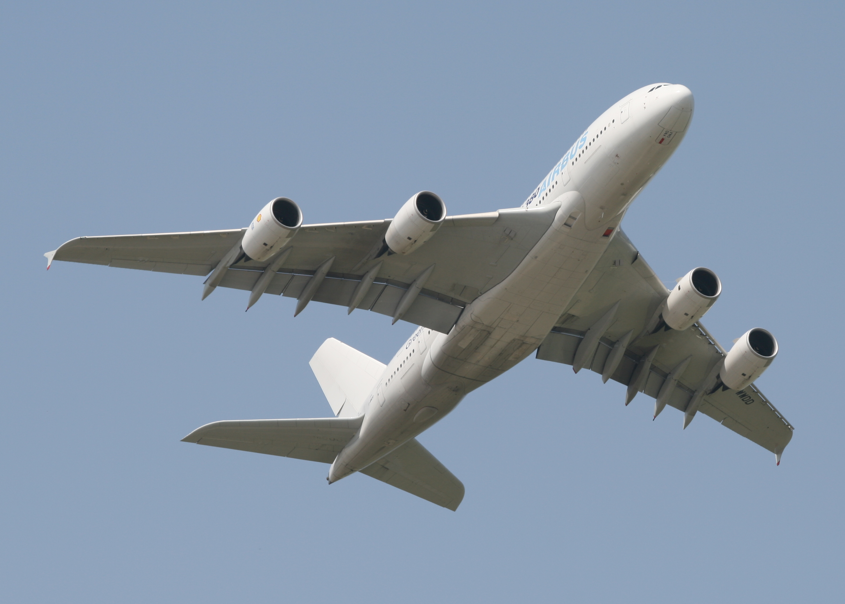 AIRBUS A380 by his Flight Performance